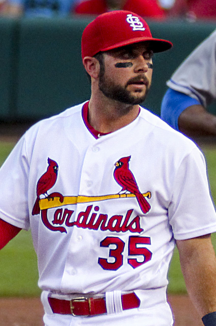 Cardinal infielder Greg Gracia 2016.